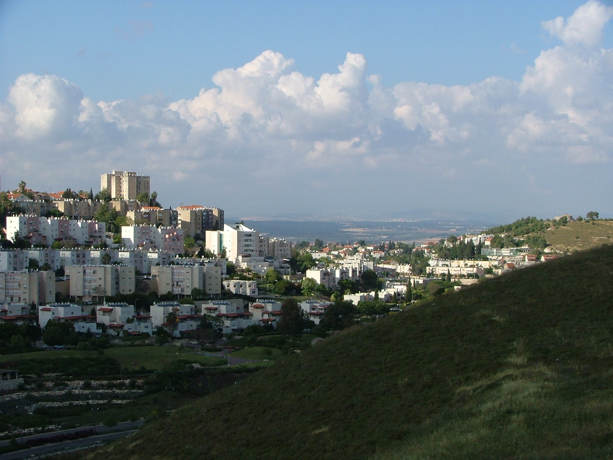 Yoqneam Ilit, Israel